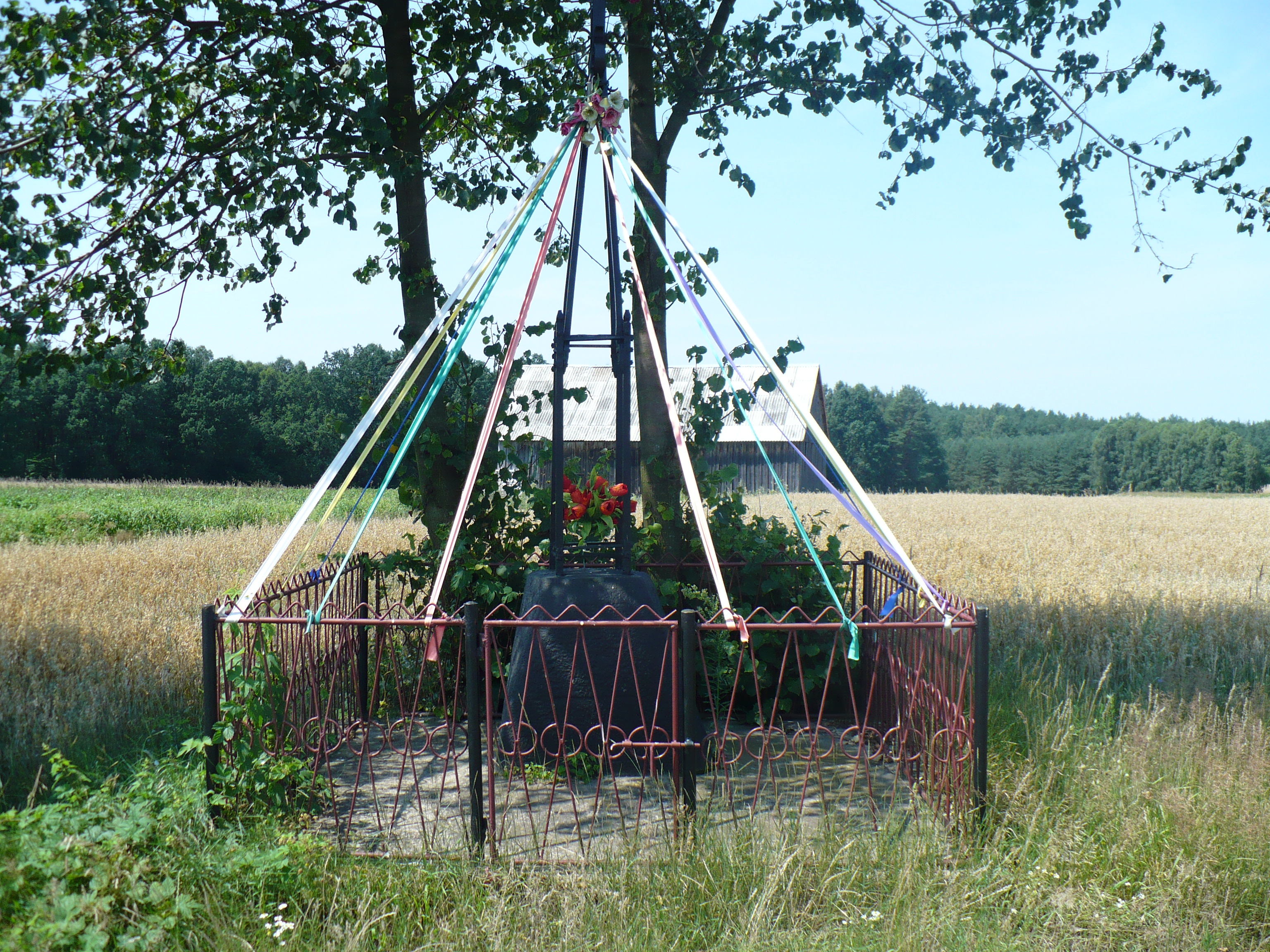 The crucifix on the Stylągi road, in Rostki.